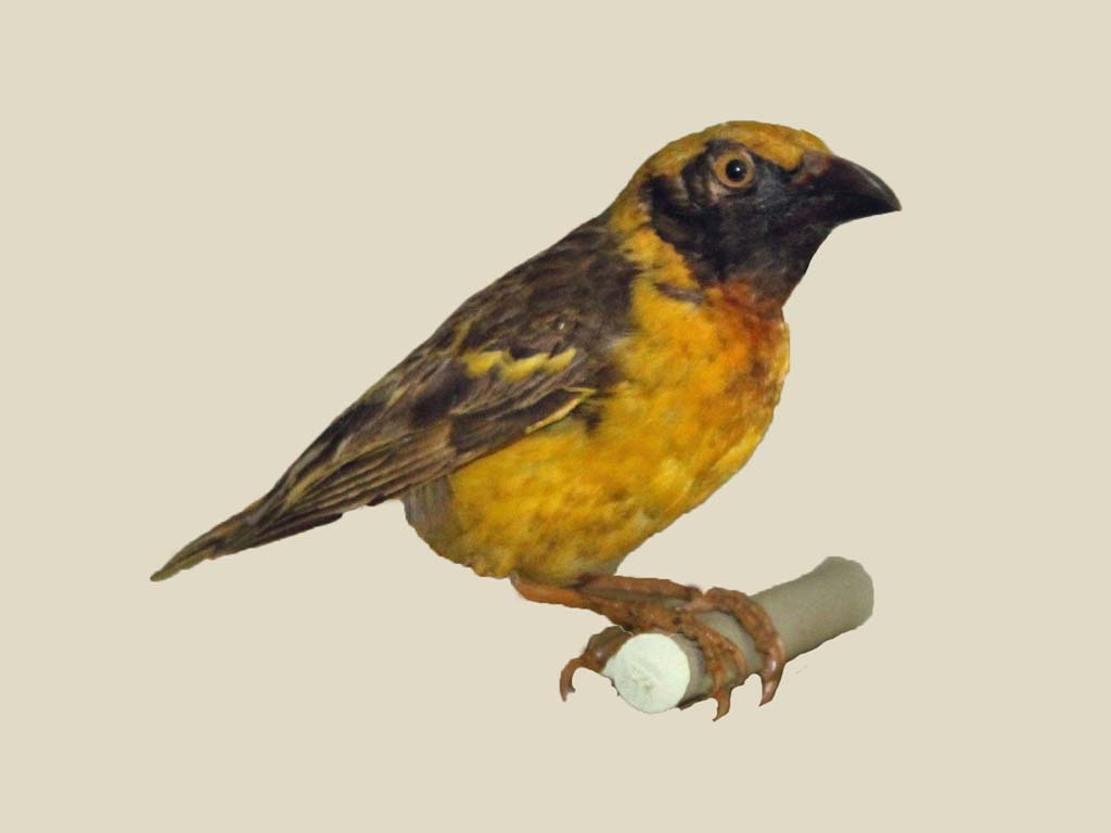 Male Fox's Weaver (Ploceus spekeoides). Photograph of a specimen at Nairobi National Museum in Nairobi, Kenya.